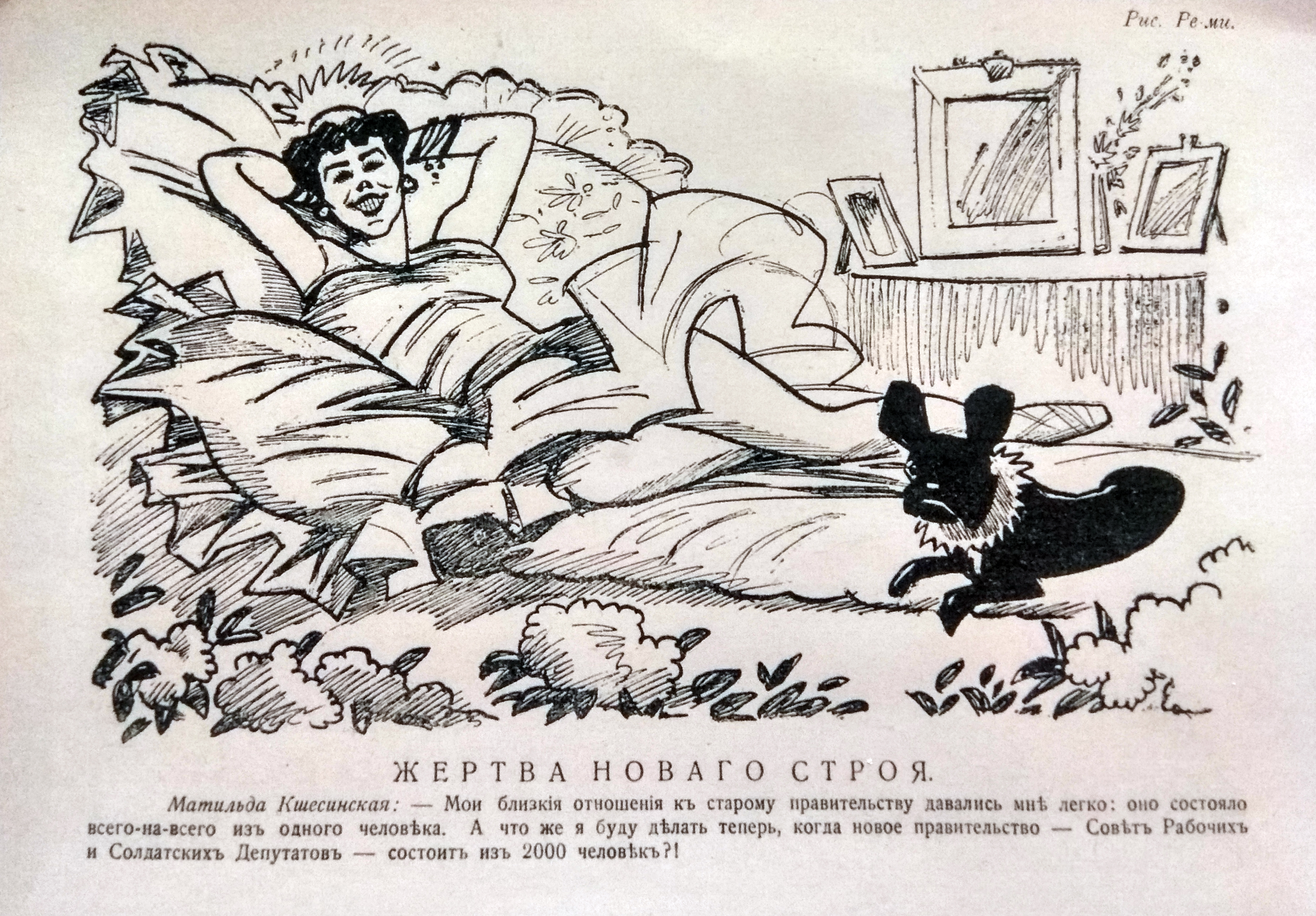 Caricature by Re Mi (Nikolai Remizov) A victim of the new regime Mathilde Kschessinska: My close relations to the old government were easy for me: it's consisted of only one person. And what am I going to do now when the new government - Soviet of Workers' and Soldiers' Deputies - consists of 2,000?